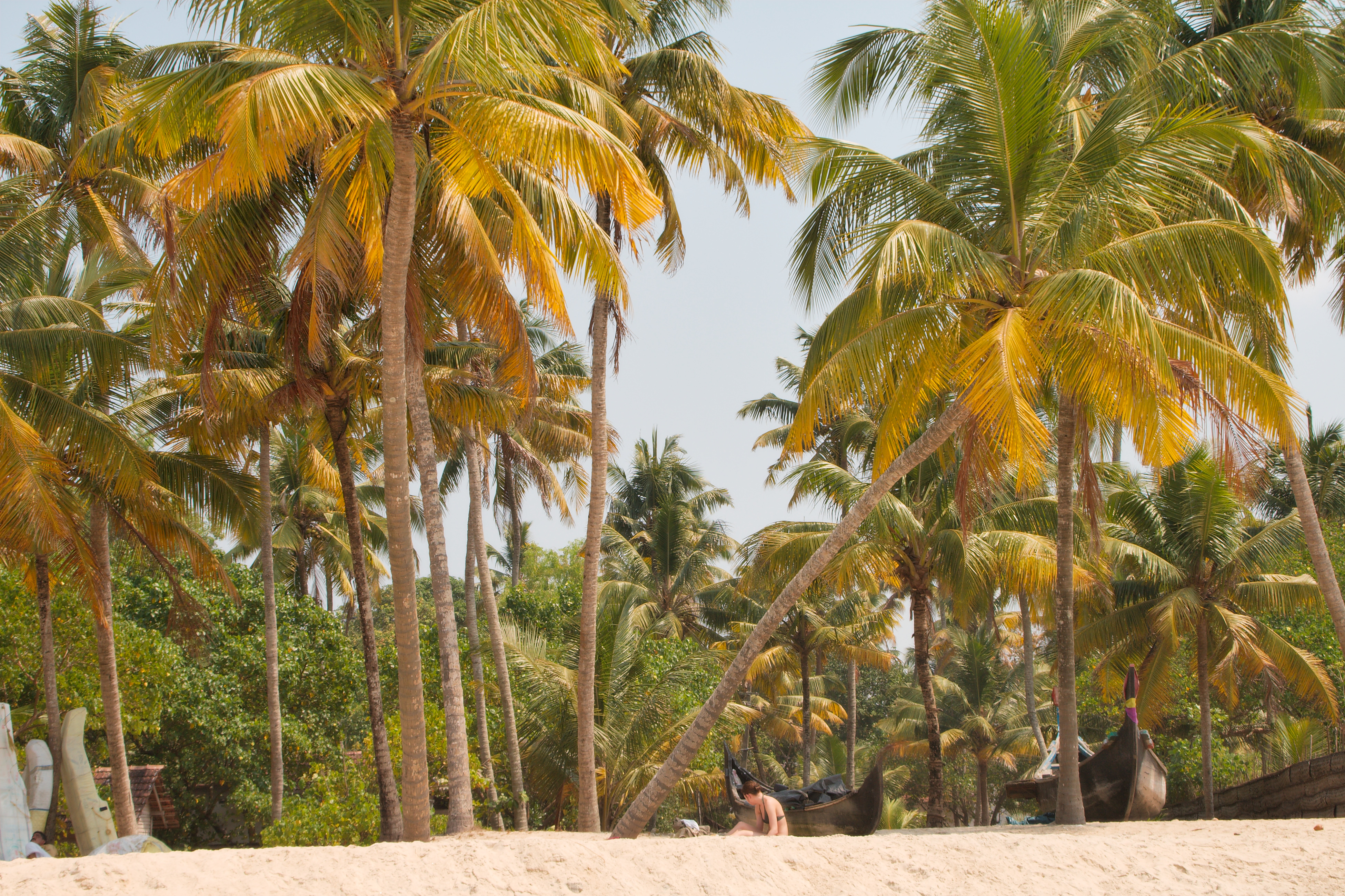 Veronica among palm trees Check out my travelblog at